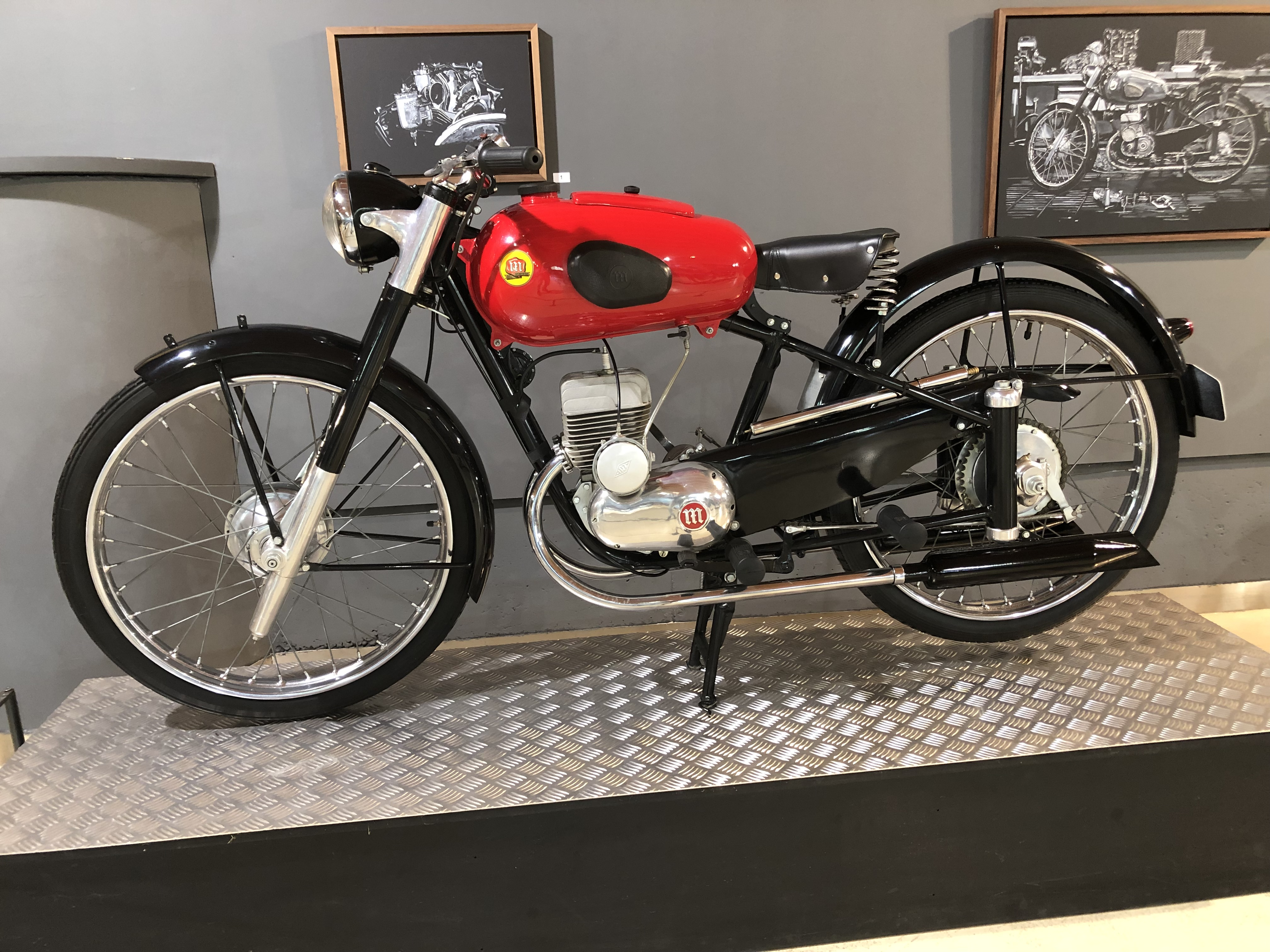 Montesa D-51, 1951